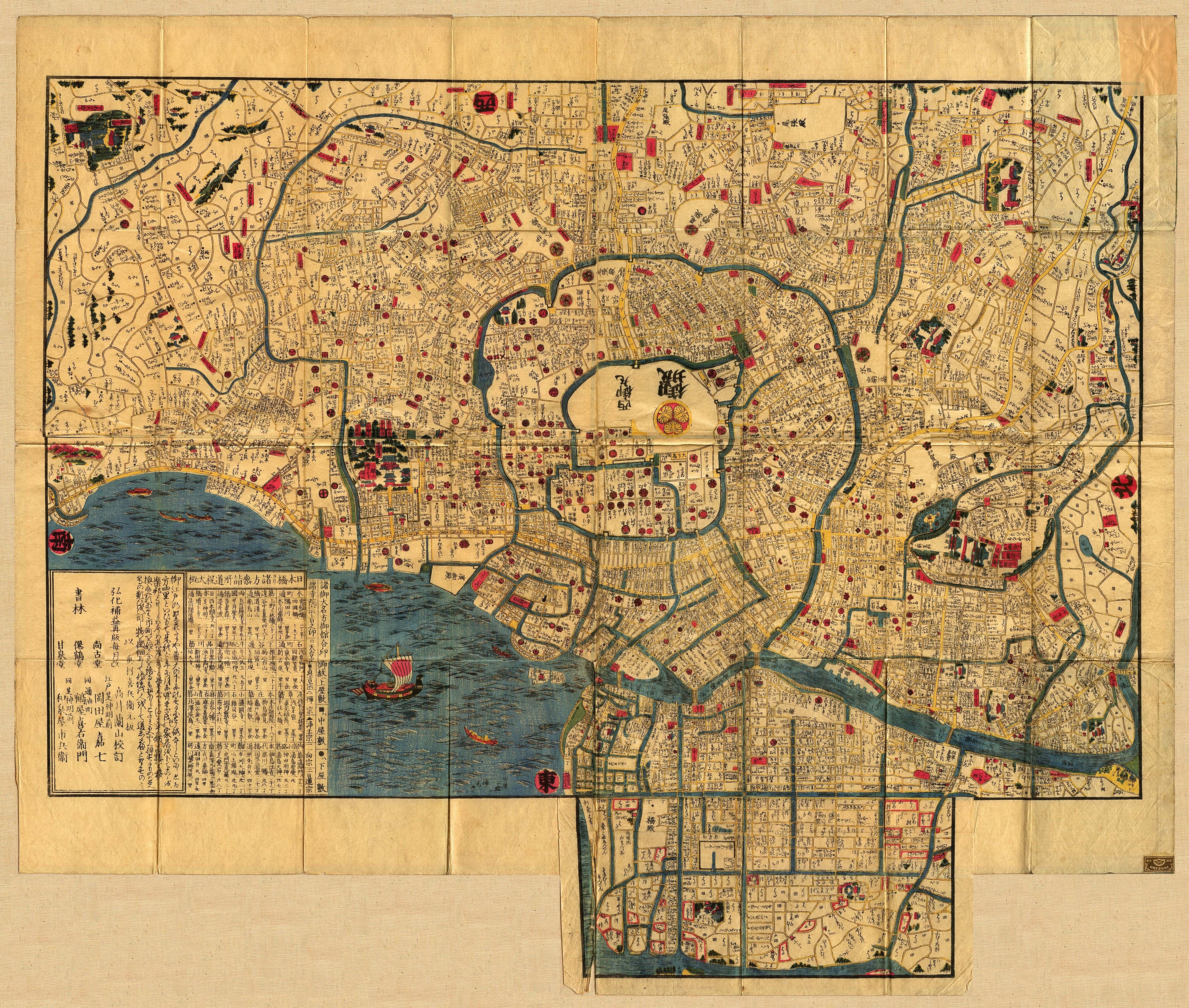 Map of Edo around 1840's